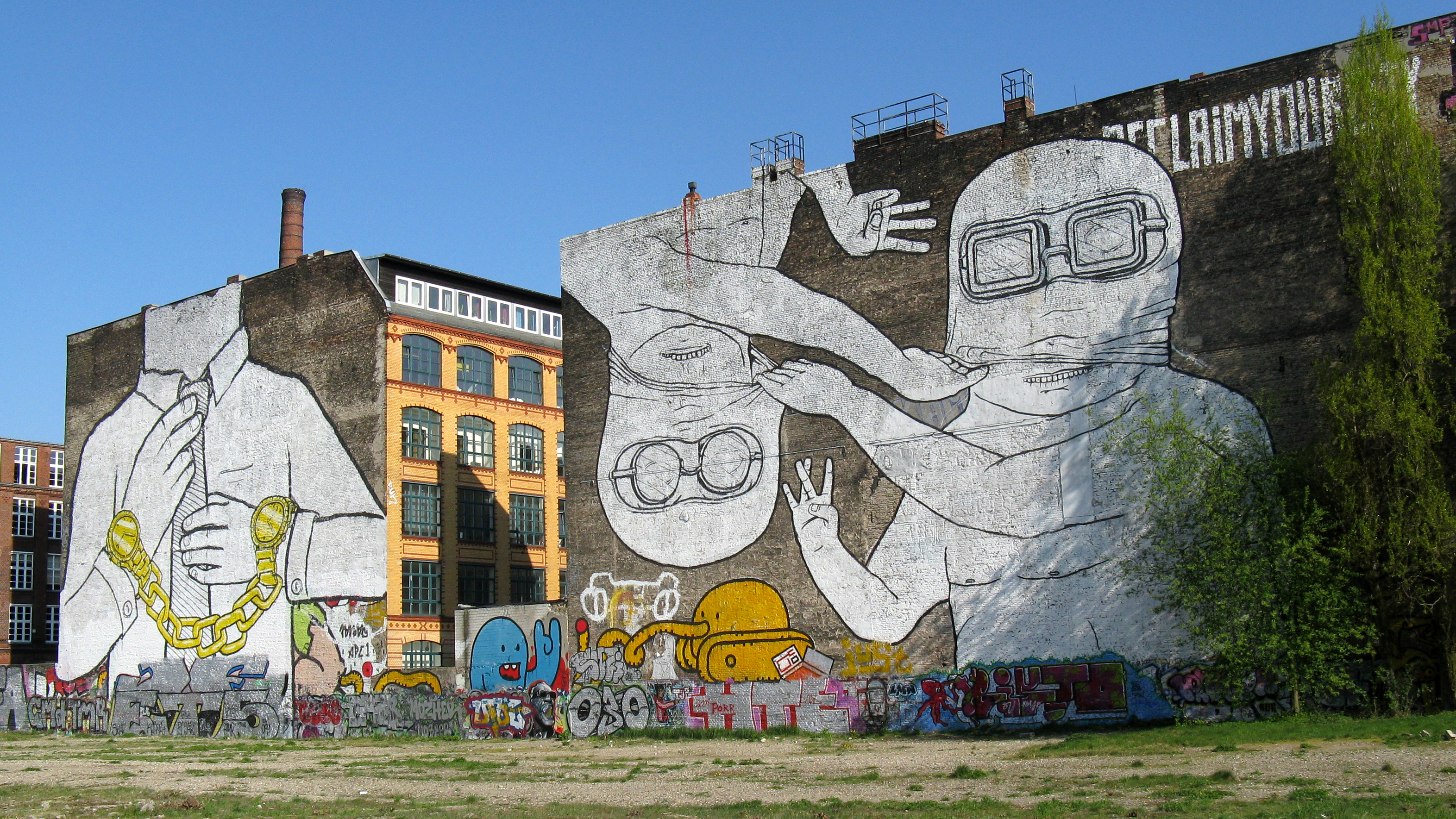 the so-called "Cuvry Graffiti" streetart by Blu in Berlin-Kreuzberg